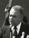 photo by Einar Einarsson Kvaran aka Carptrash 03:46, 18 June 2006 (UTC) Coleman Young mayor of Detroit, MI